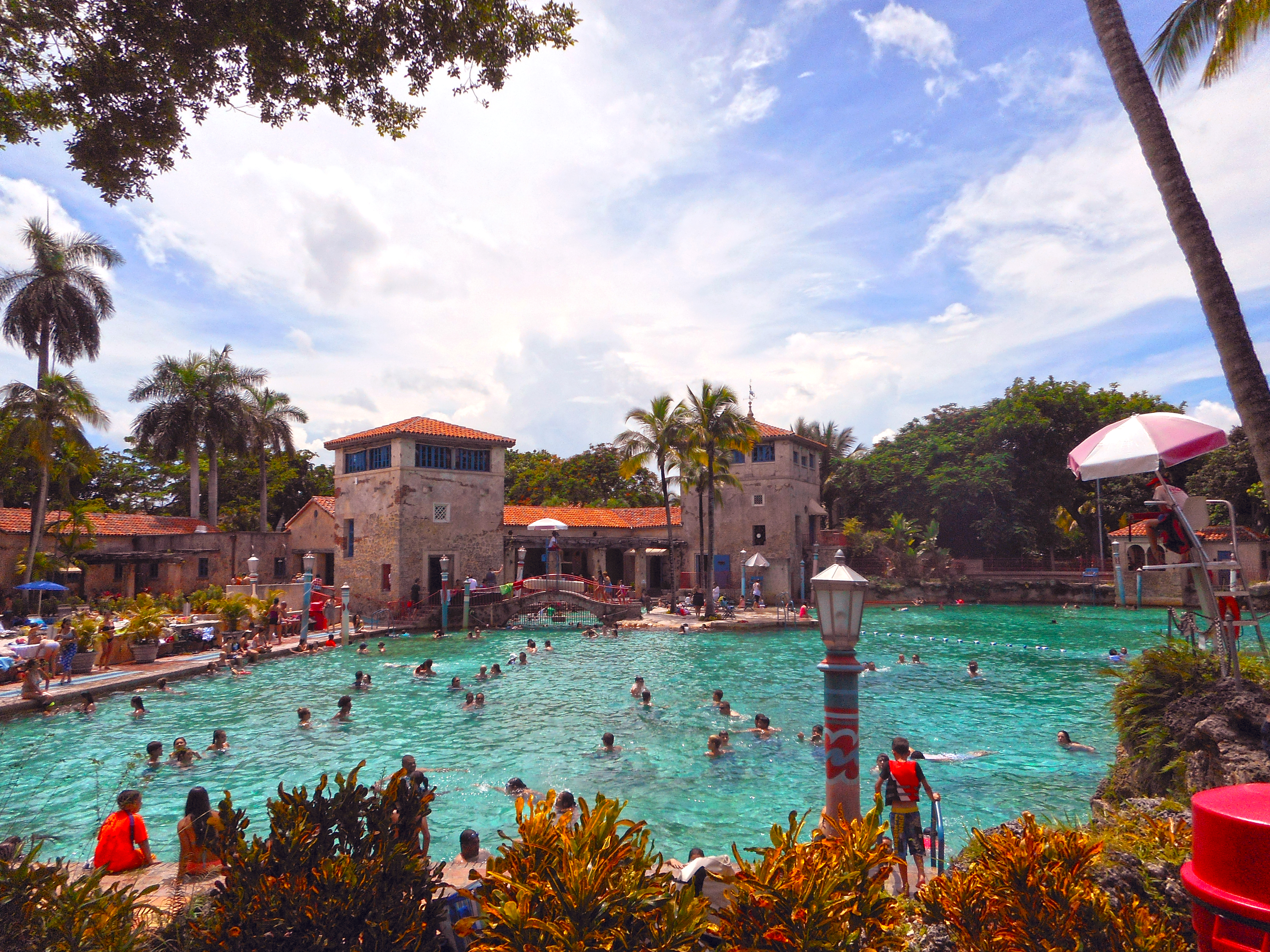 General view of pool and buildings